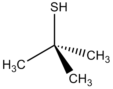 Chemical structure of tert-butylthiol